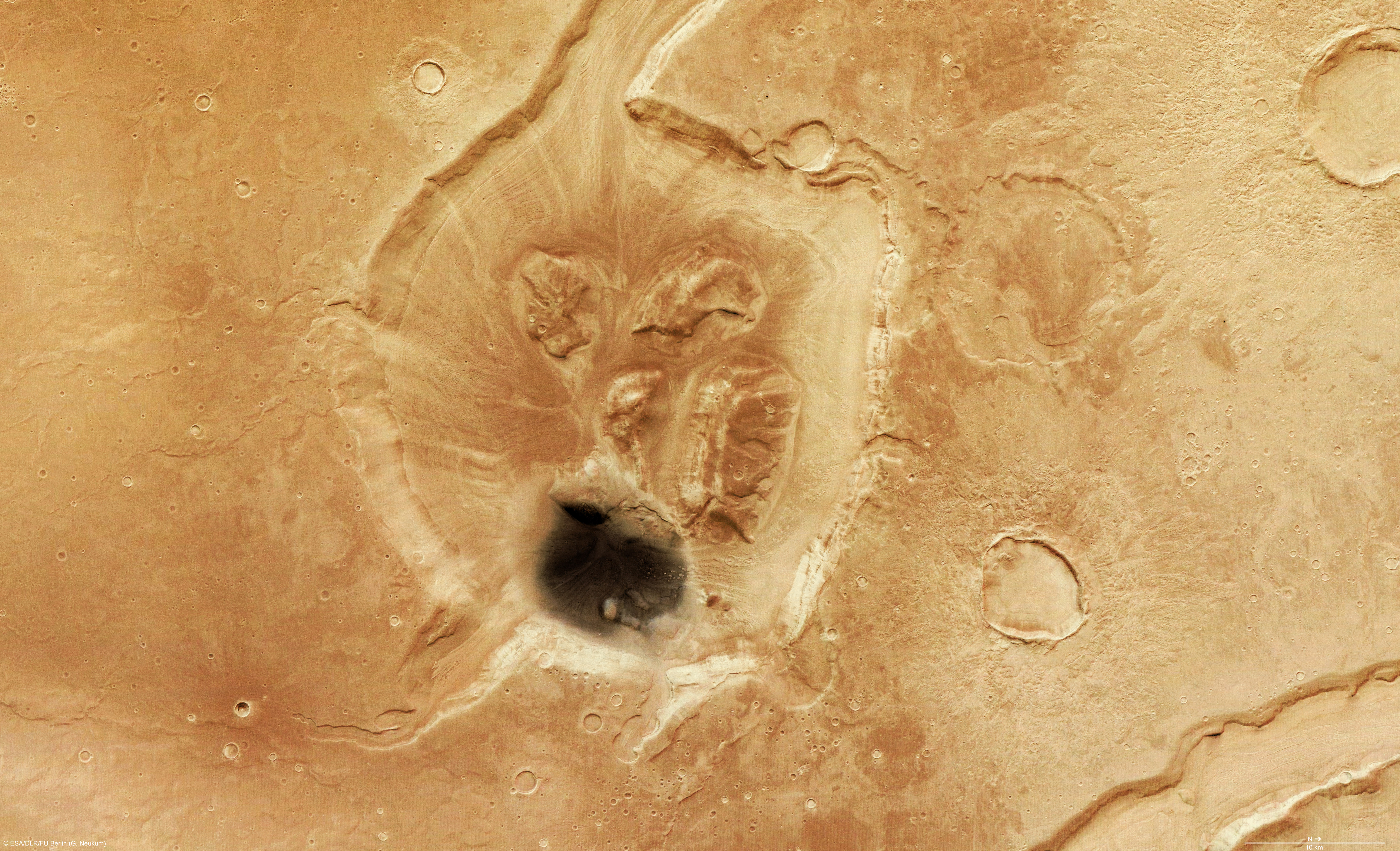 A depression in Mamers Valles on Mars imaged by the HRSC instrument aboard Mars Express.